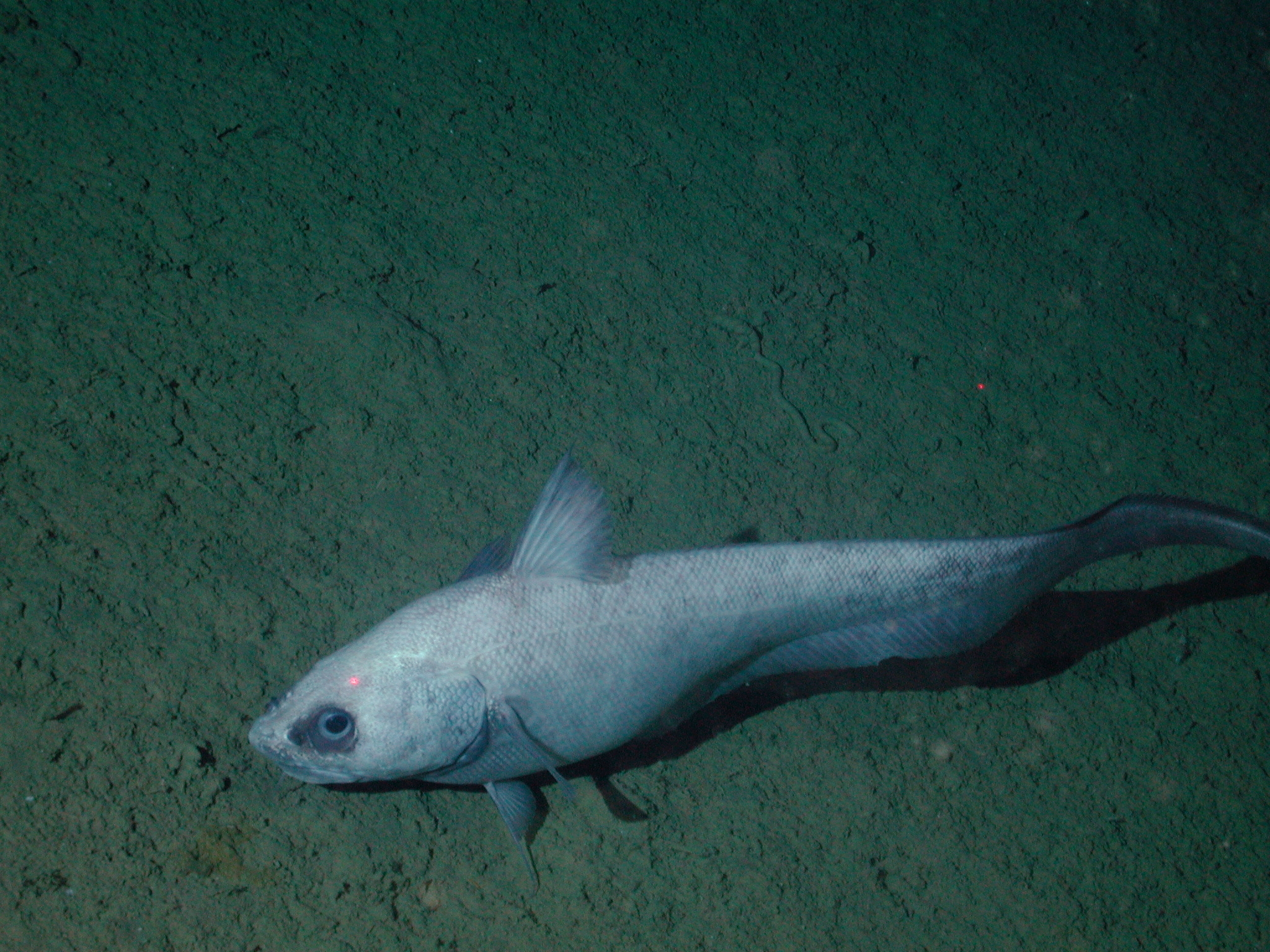 Coryphaenoides leptolepis taken at 3158 meters water depth at California, Davidson Seamount.